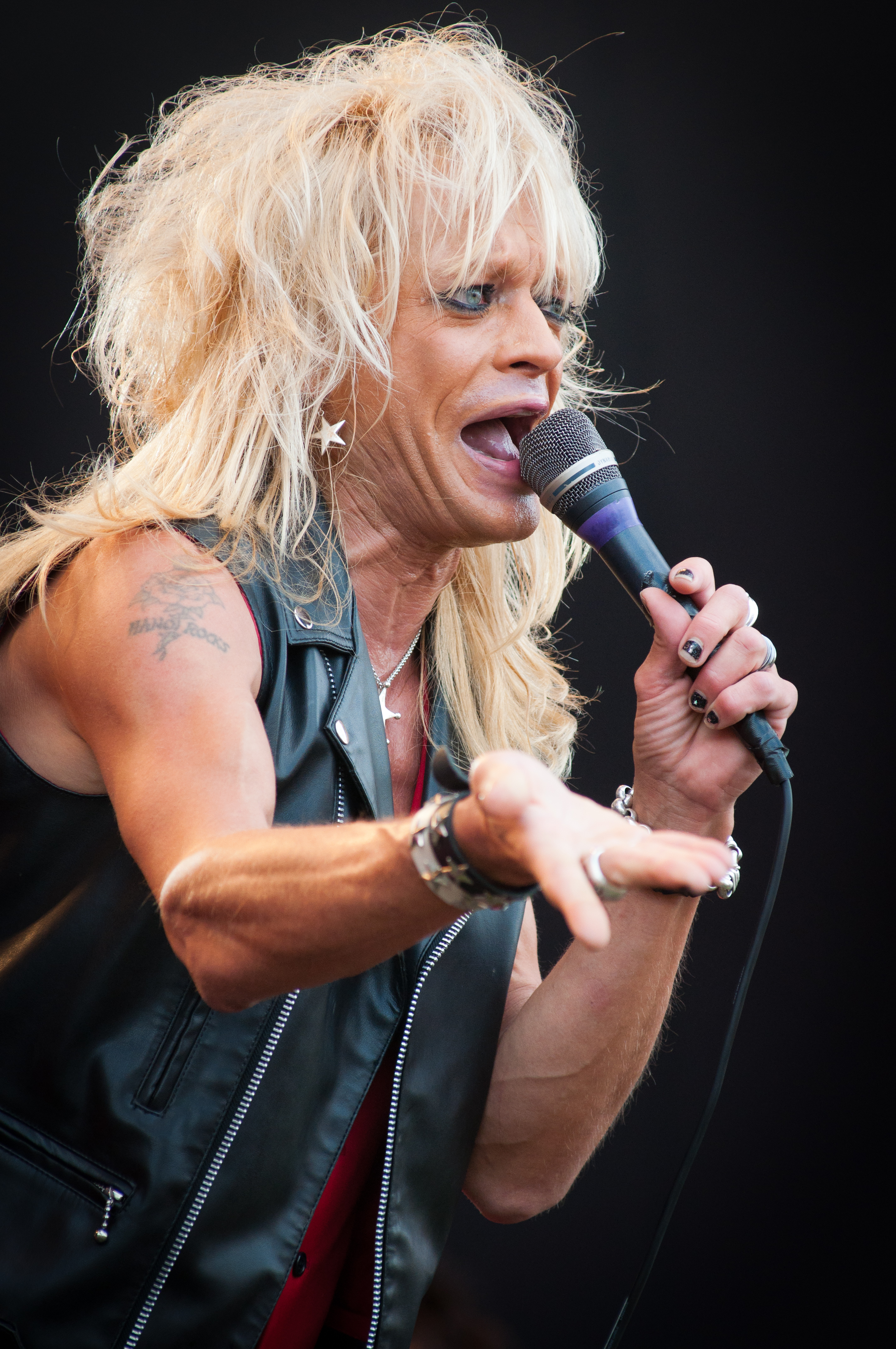 Finnish vocalist and saxophonist Michael Monroe performing at the 2011 Ilosaarirock festival in Joensuu, Finland.